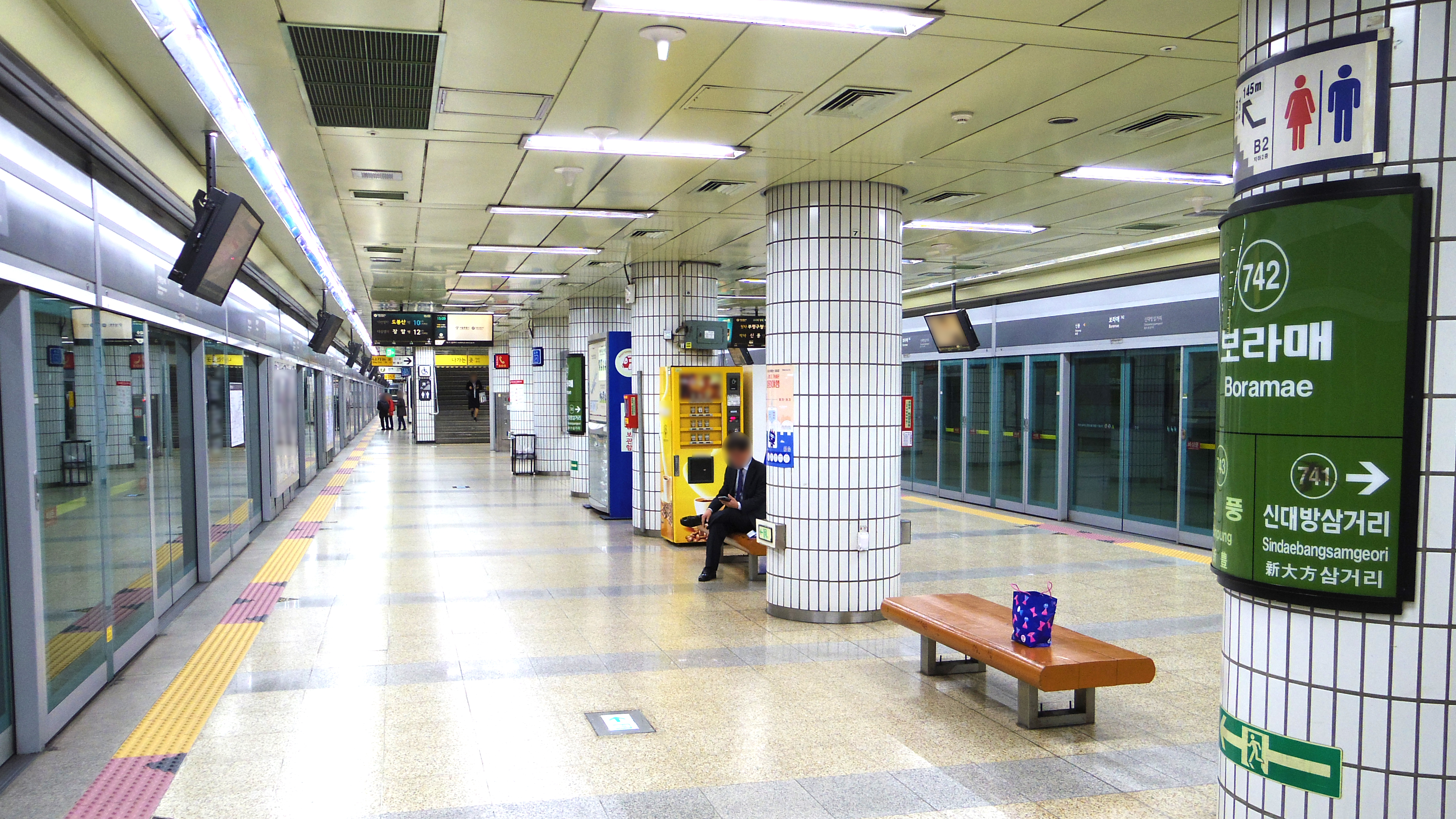 The platform at Boramae Station on the Seoul Subway Line 7 in Yeongdeungpo-gu, Seoul, Republic of Korea(South Korea)